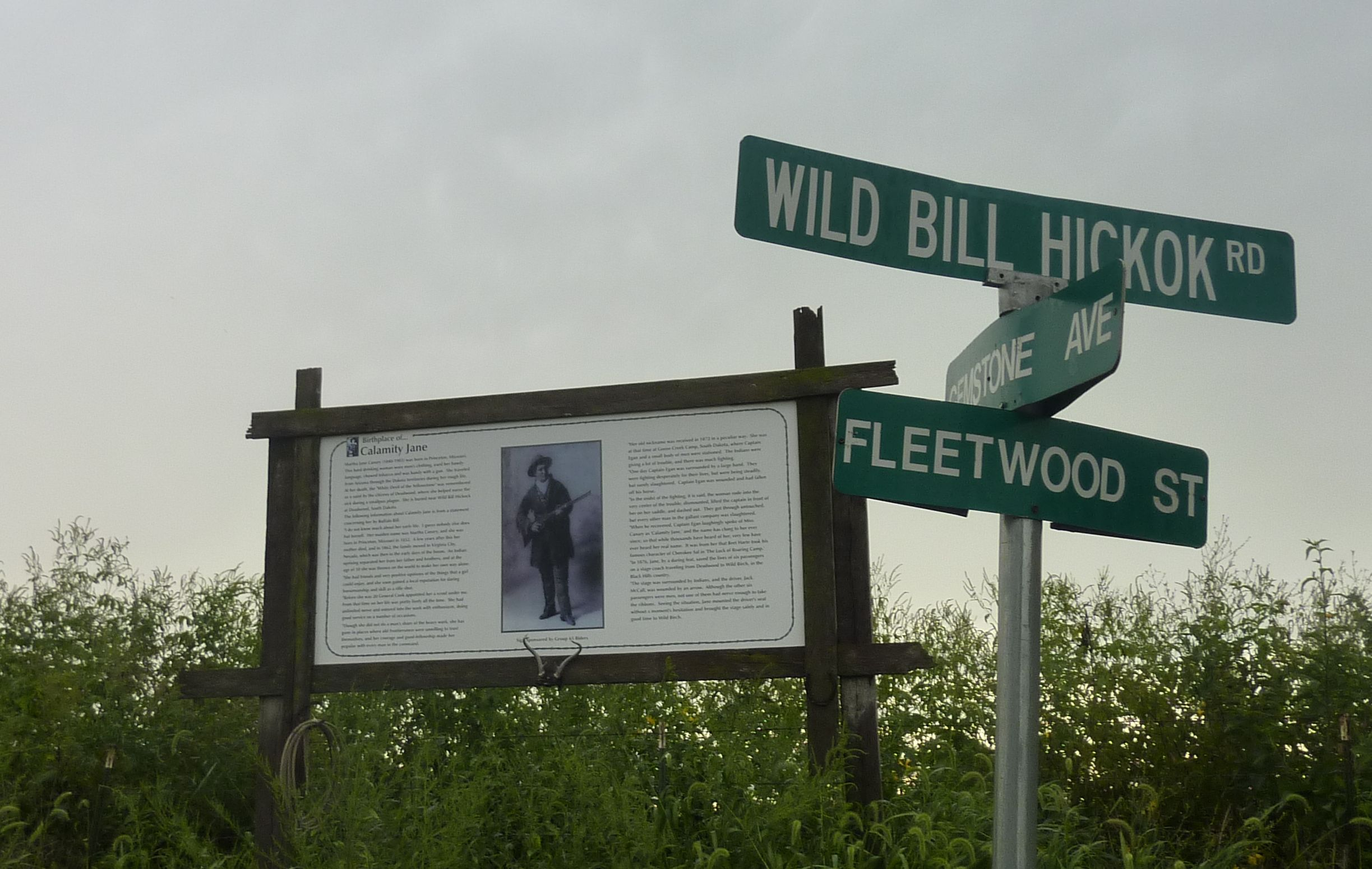 Signs indicating birthplace of Calamity Jane east of Princeton, Missouri